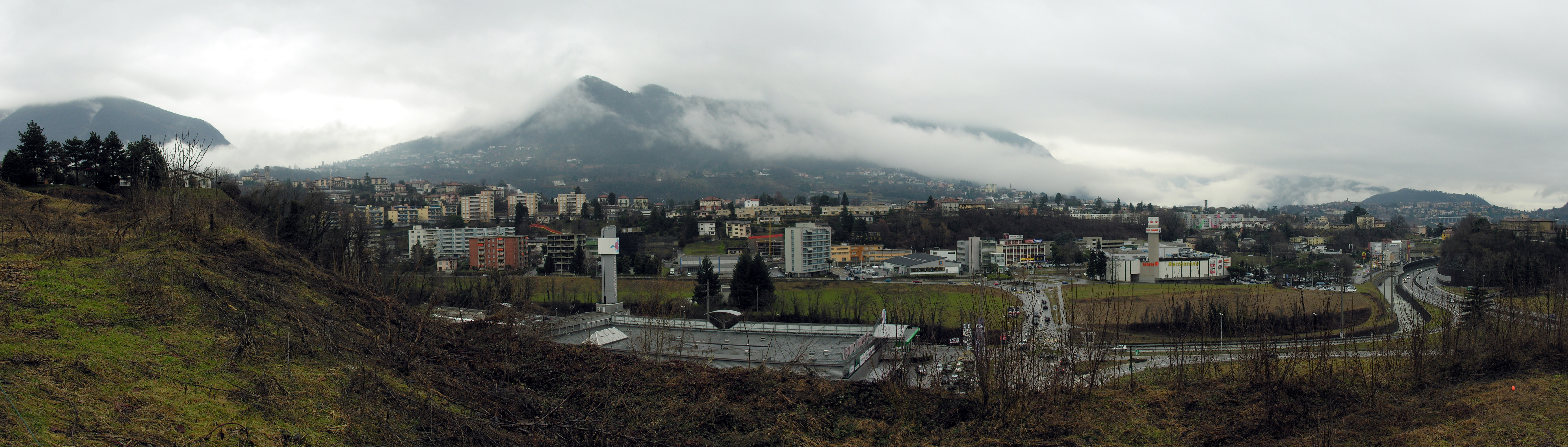 Morbio Inferiore, Tessin, Switzerland - A Hugin stiched panorama of four pictures of Morbio Inferiore as seen from Balerna.